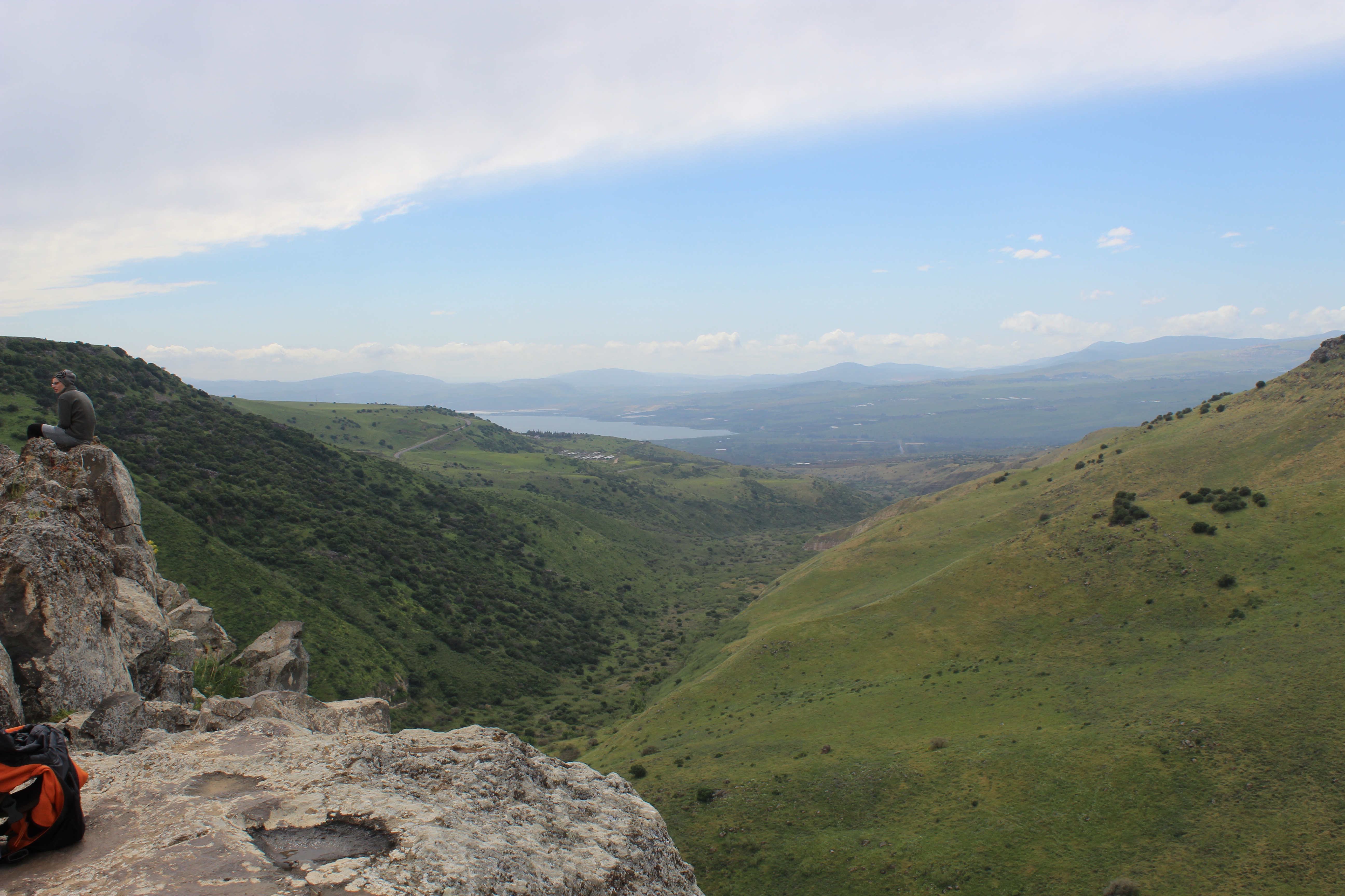 View of the Sea of Galilee (Kinneret) as seen from Gamla in the Golan